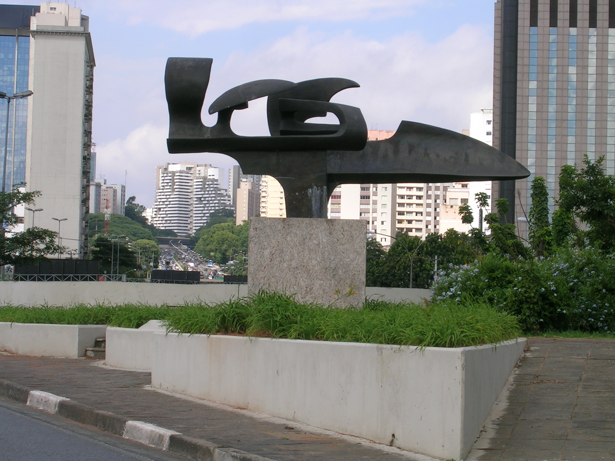 Sculpture in memory of Ayrton Senna